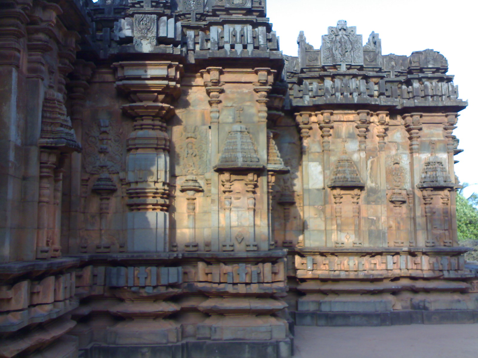 Chandramouleshwara_temple_Unkal Manjunath Doddamani, Gajendragad North Karnataka